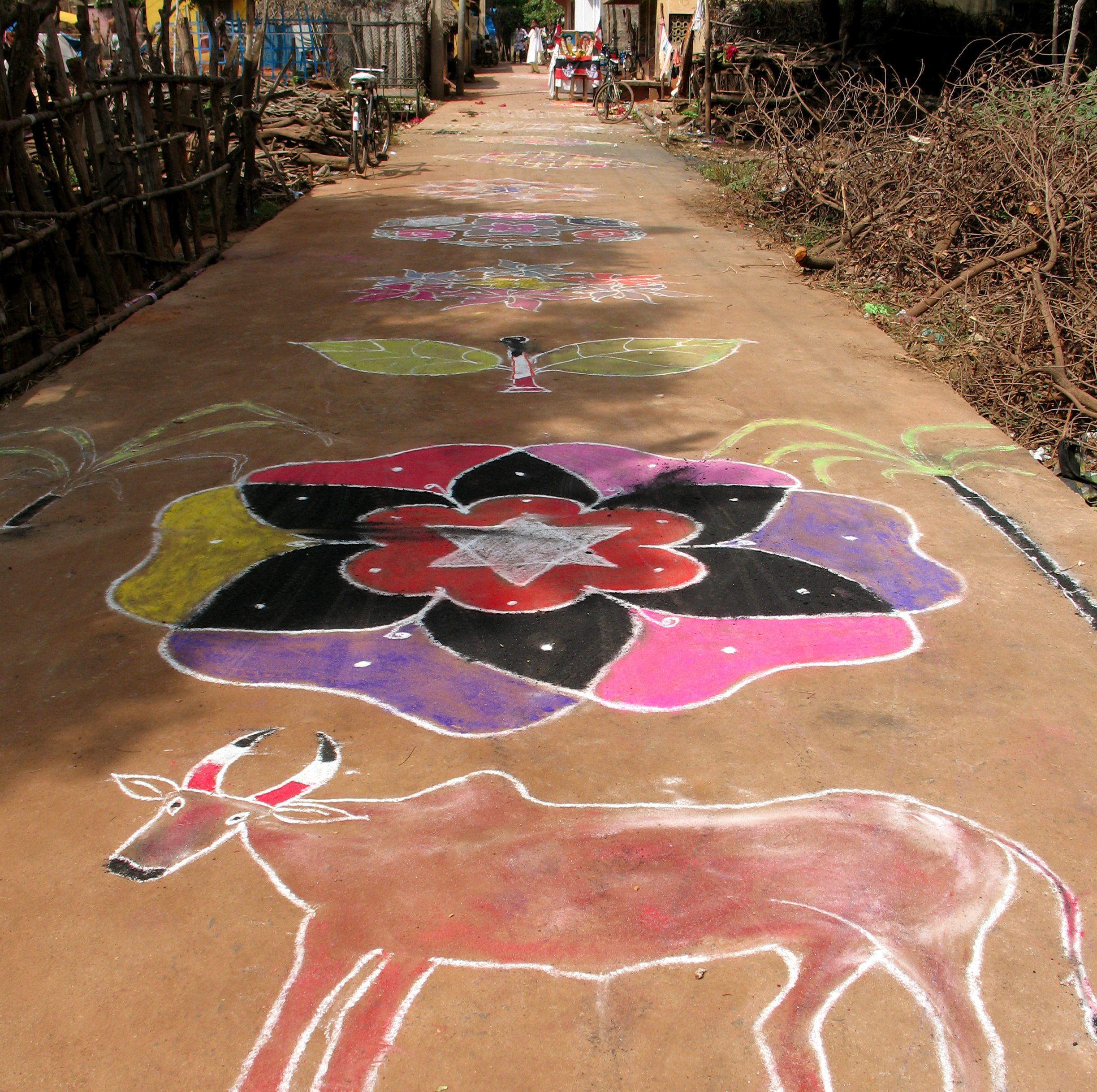 A street in Puducherry, India, decorated for Pongal.